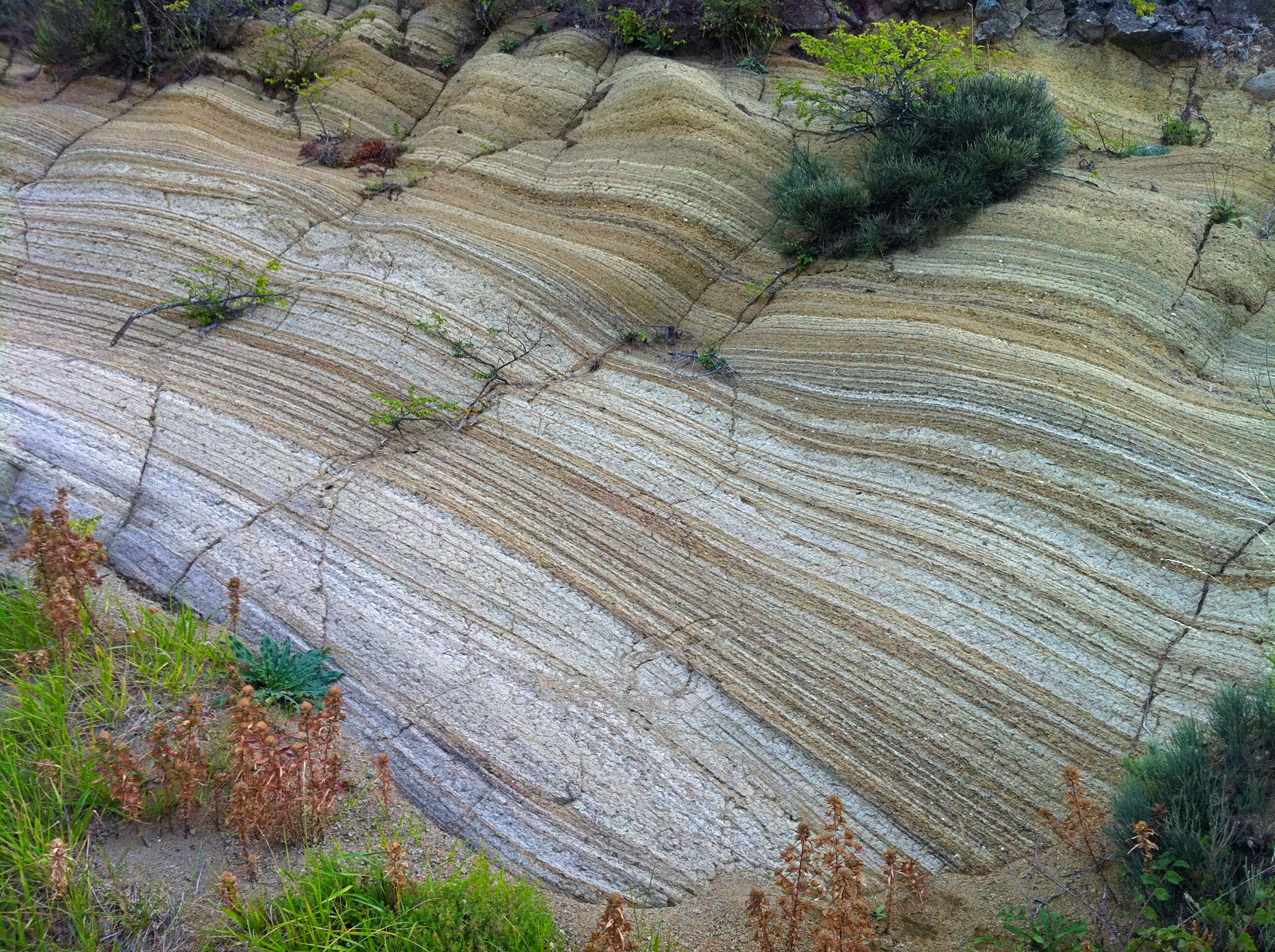 Pyroclastic rocks (tuff) in Massif Central, France.